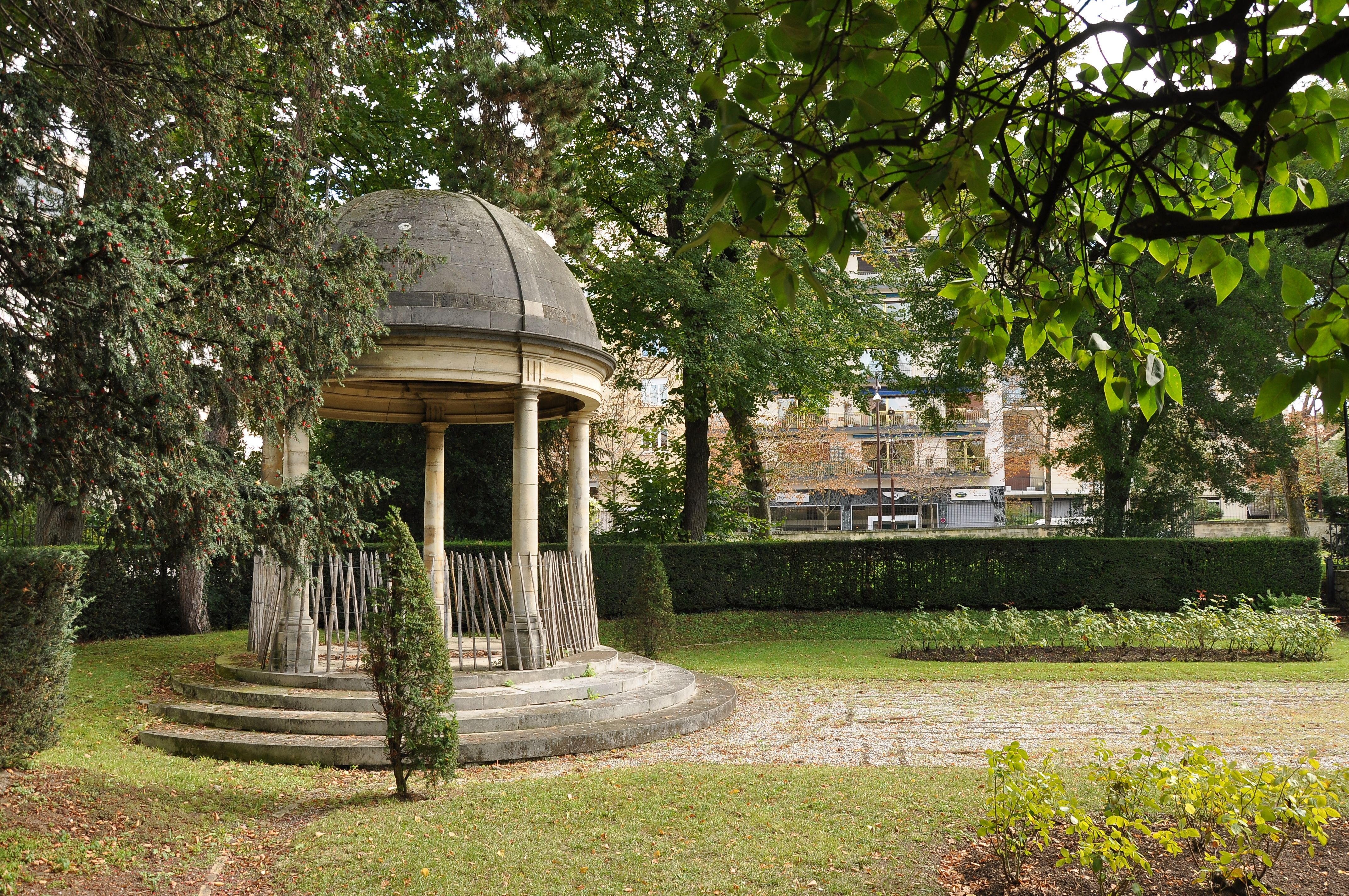 Temple de l'Amour at Parc of Saint-James in Neuilly-sur-Seine, France